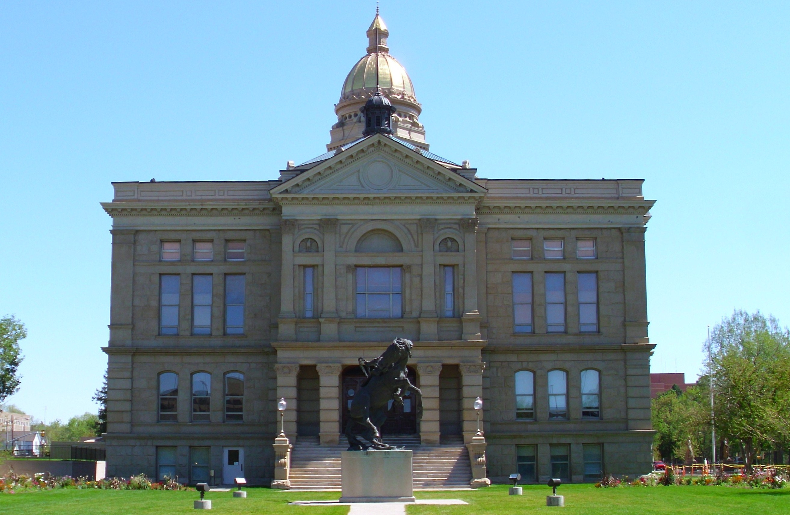 Wyoming State Capitol west facade